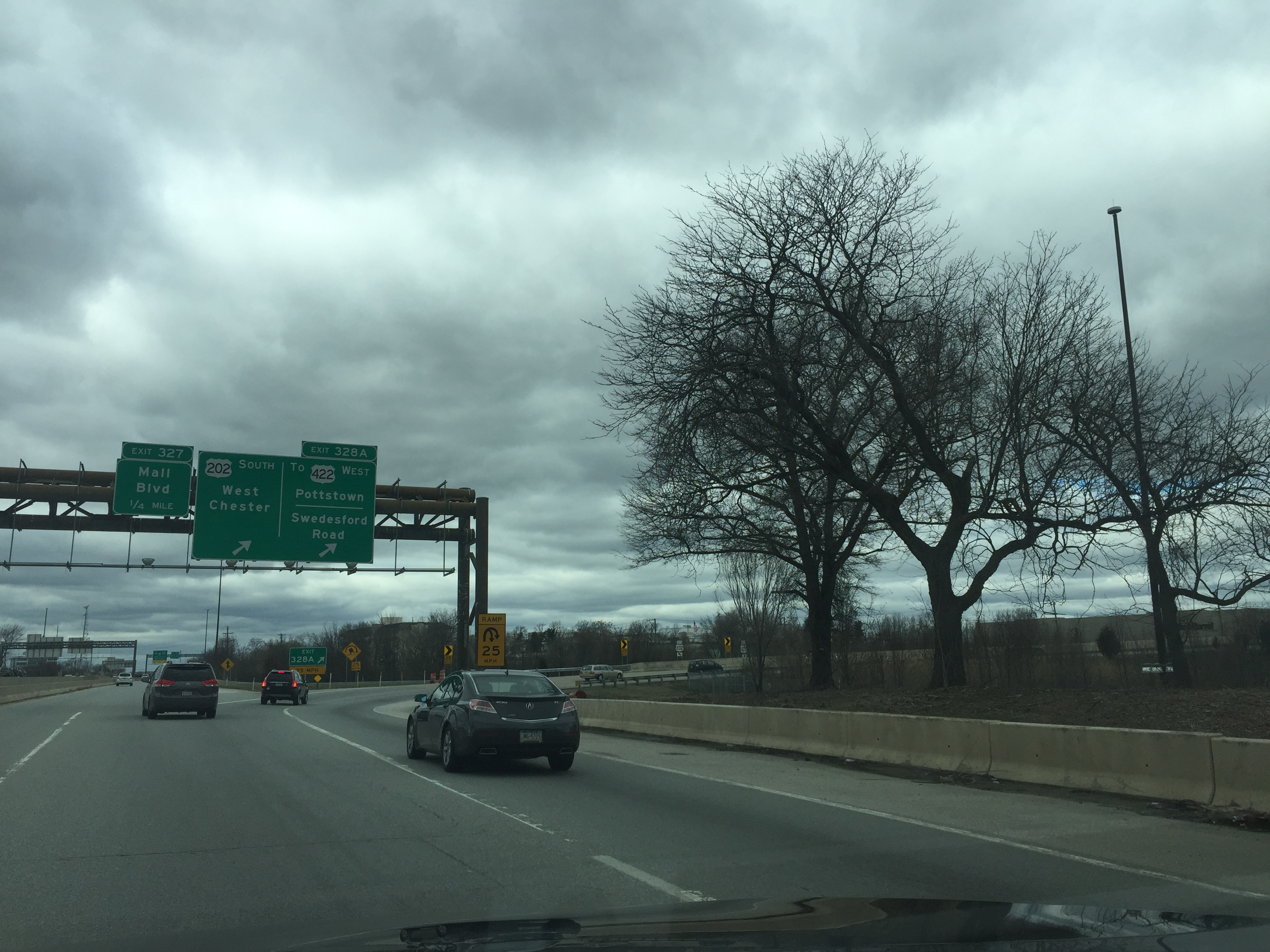 Schuylkill Expressway at 202